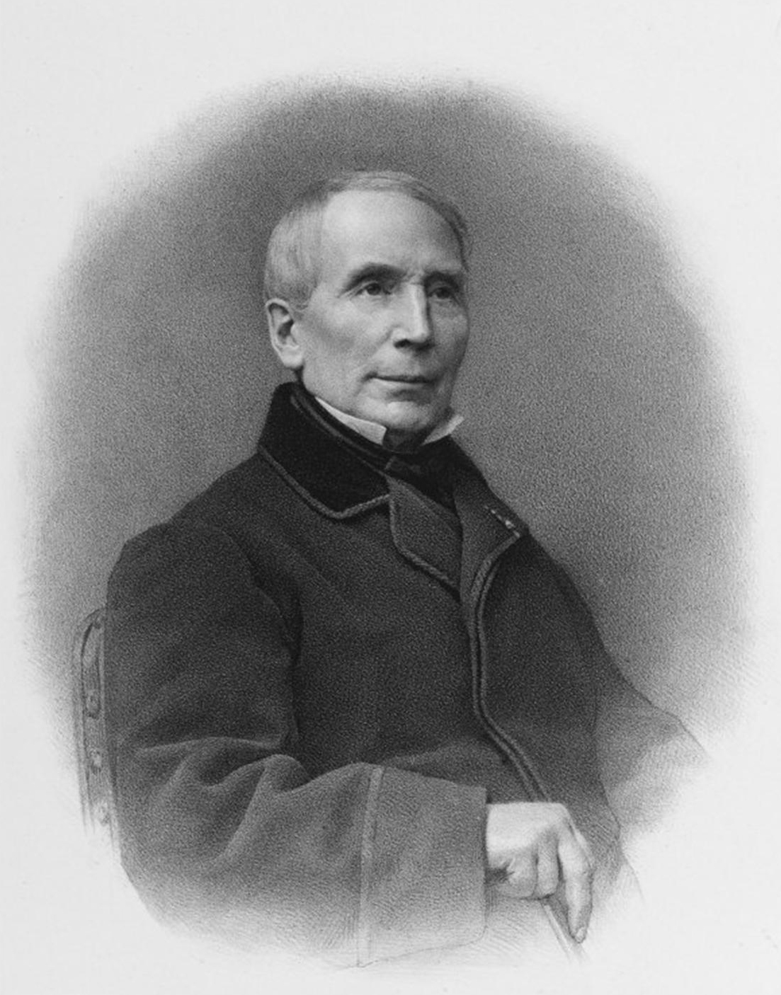 French orientalist and lexicographer Armand Pierre Caussin de Perceval (1795-1871)